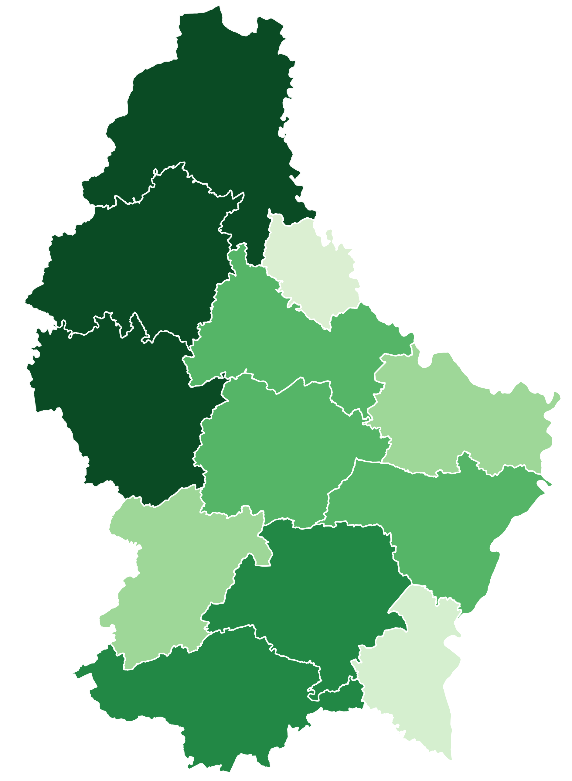 A map of cantons of Luxembourg after mergers of 2006-01-01, colour-coded by geographic area. Area is denoted by seven different shades of green; in order of increasingly darker shades, the lower bounds (in km²) are: 0, 100, 150, 200, 225, 250, 300.